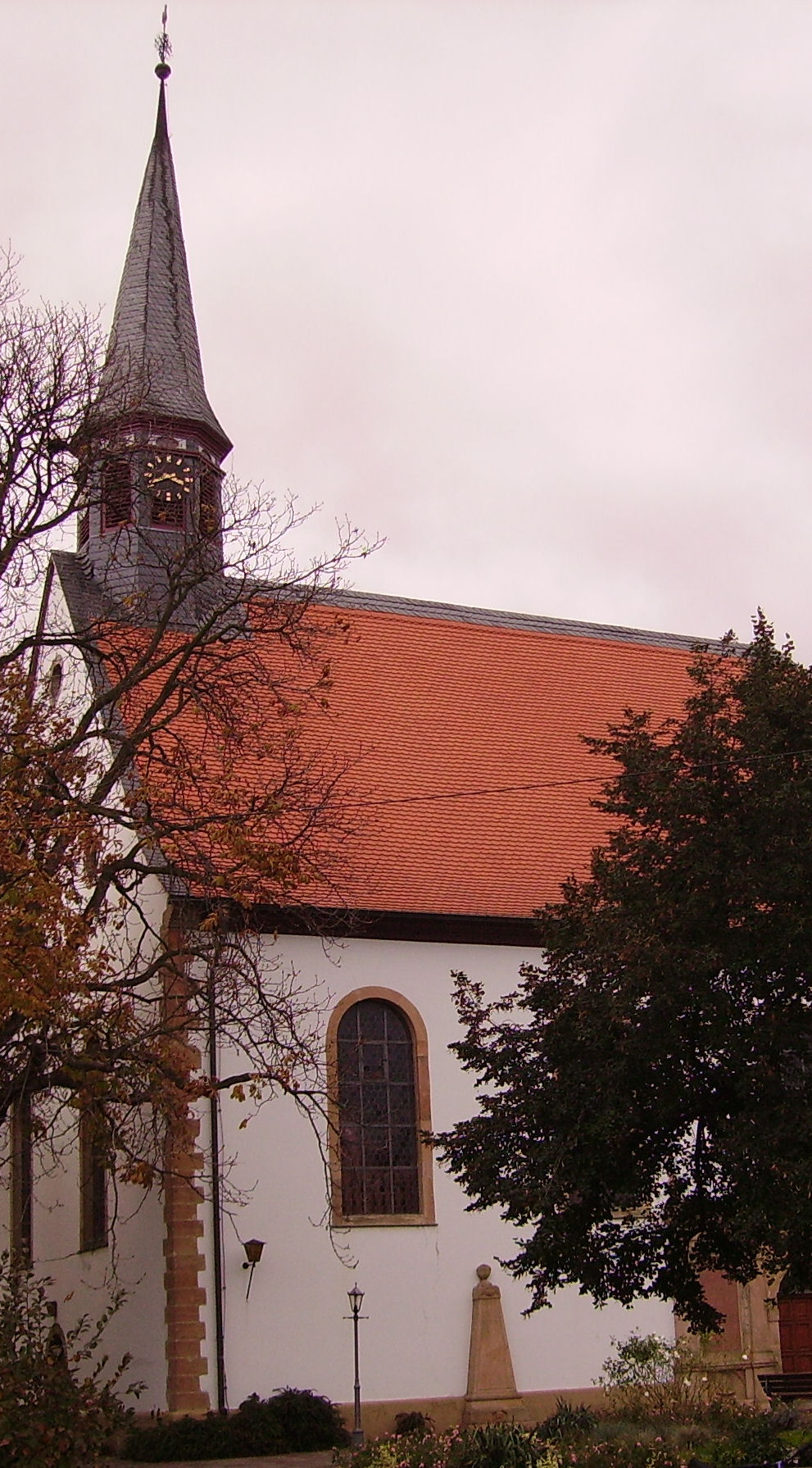 view of Meckenheim (Pfalz), Germany